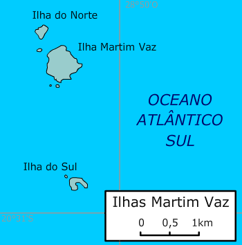 Map of Martim Vaz islands, Brazil